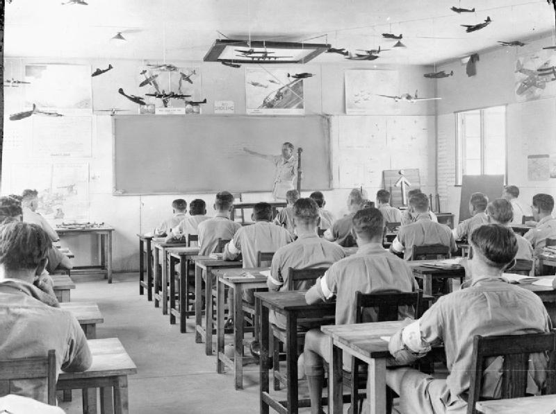 Training of Royal Air Force Aircrew in Rhodesia, 1943 Royal Air Force air gunners receive class-room instruction at an Air Training School in Southern Rhodesia. The instructor is Pilot Officer J Ward.